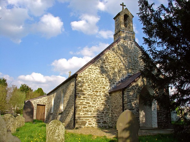 Parish church: Llangybi: from the northwest